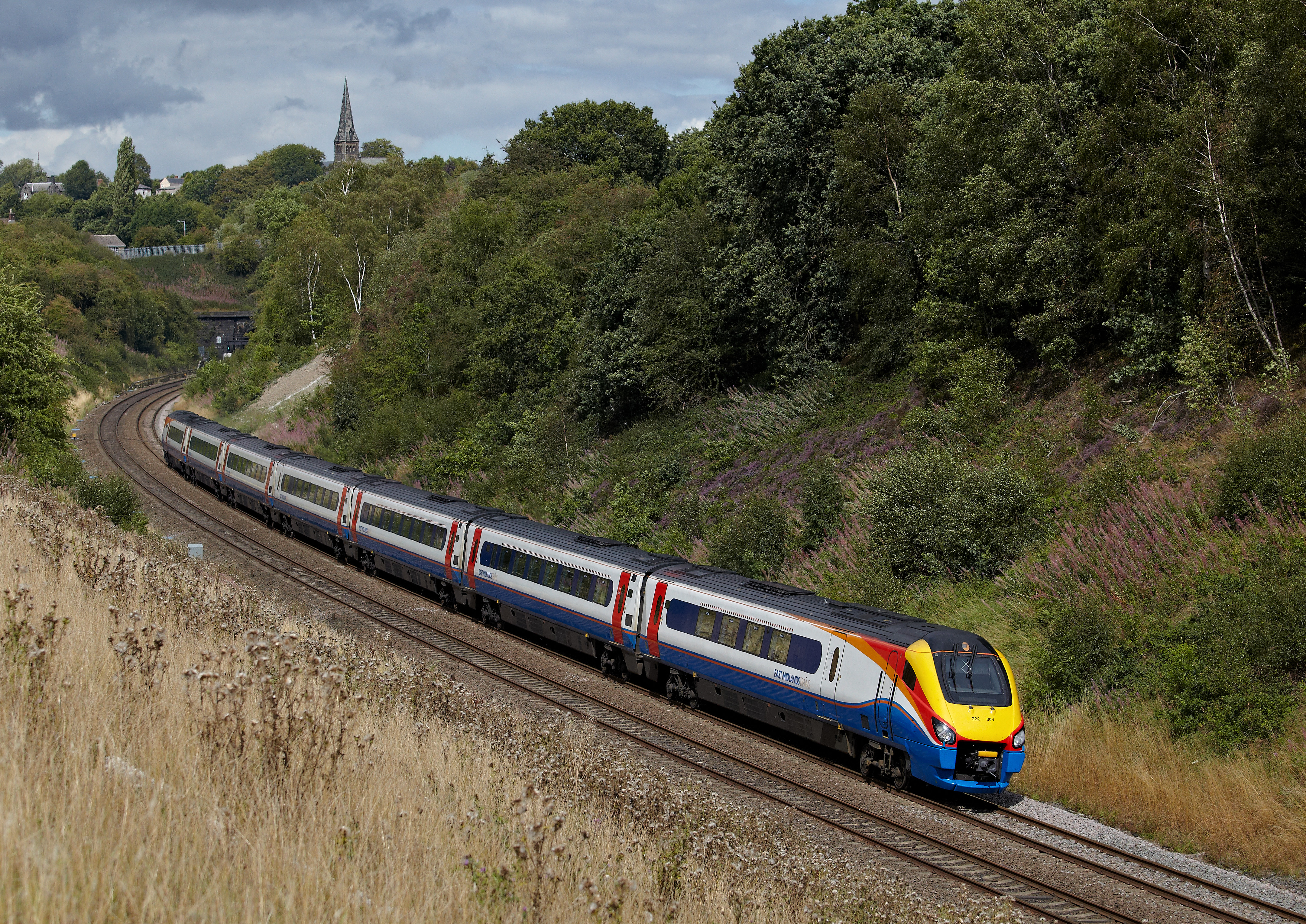 222004 , Claycross